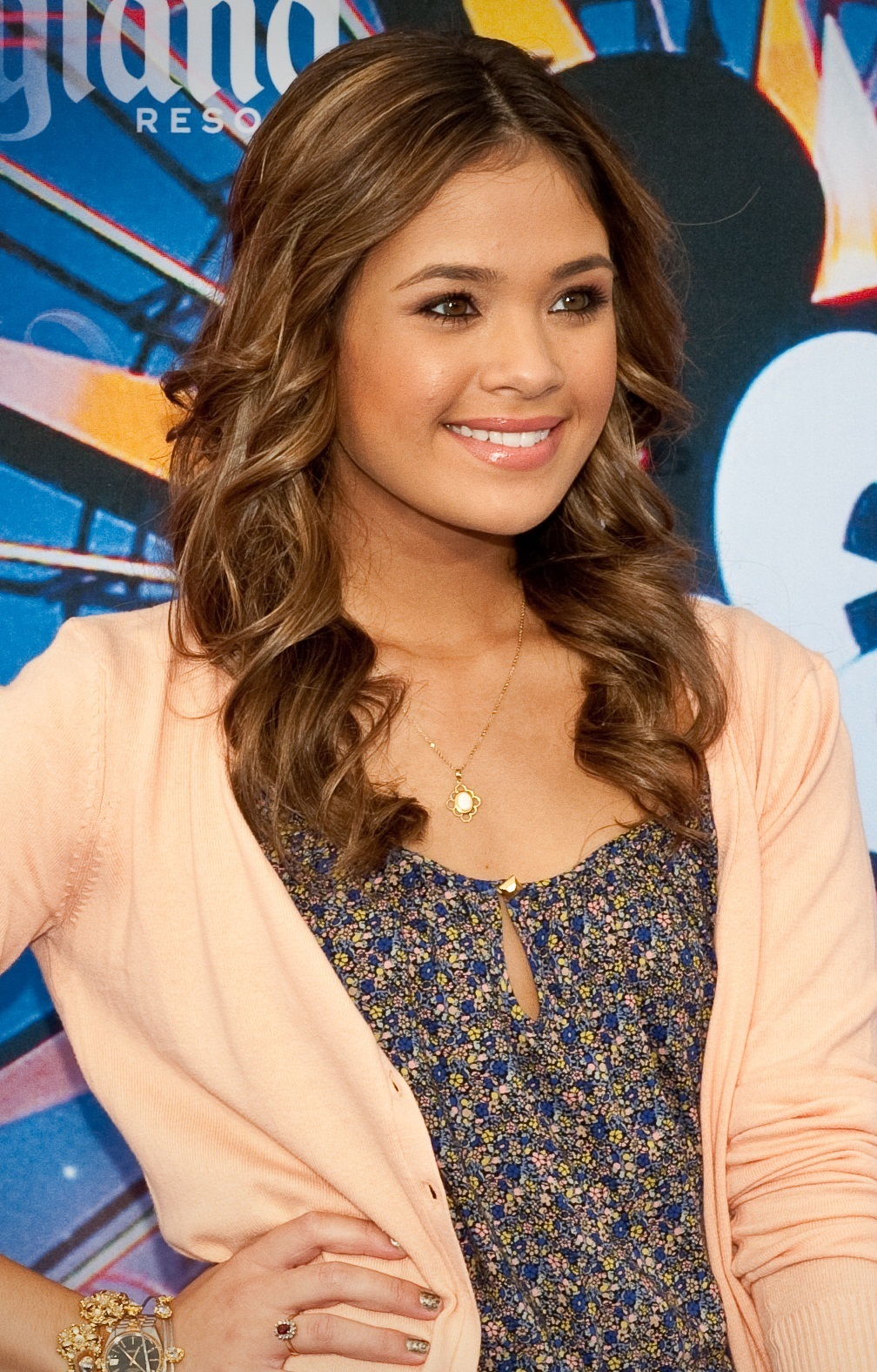 Nicole Anderson at the World of Color permiere at Disney California Adventure Park in June